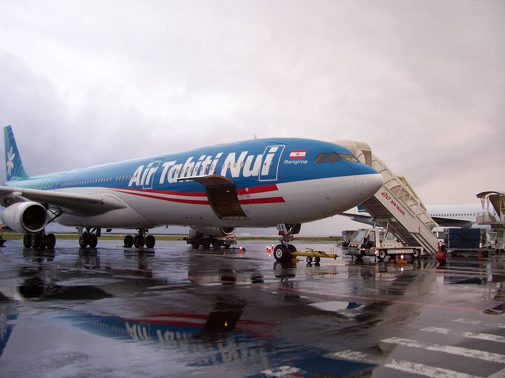 An Air Tahiti Nui A340-300 (F-OSEA) Rangiroa at Faa'a International Airport, Papeete, Tahiti, French Polynesia.